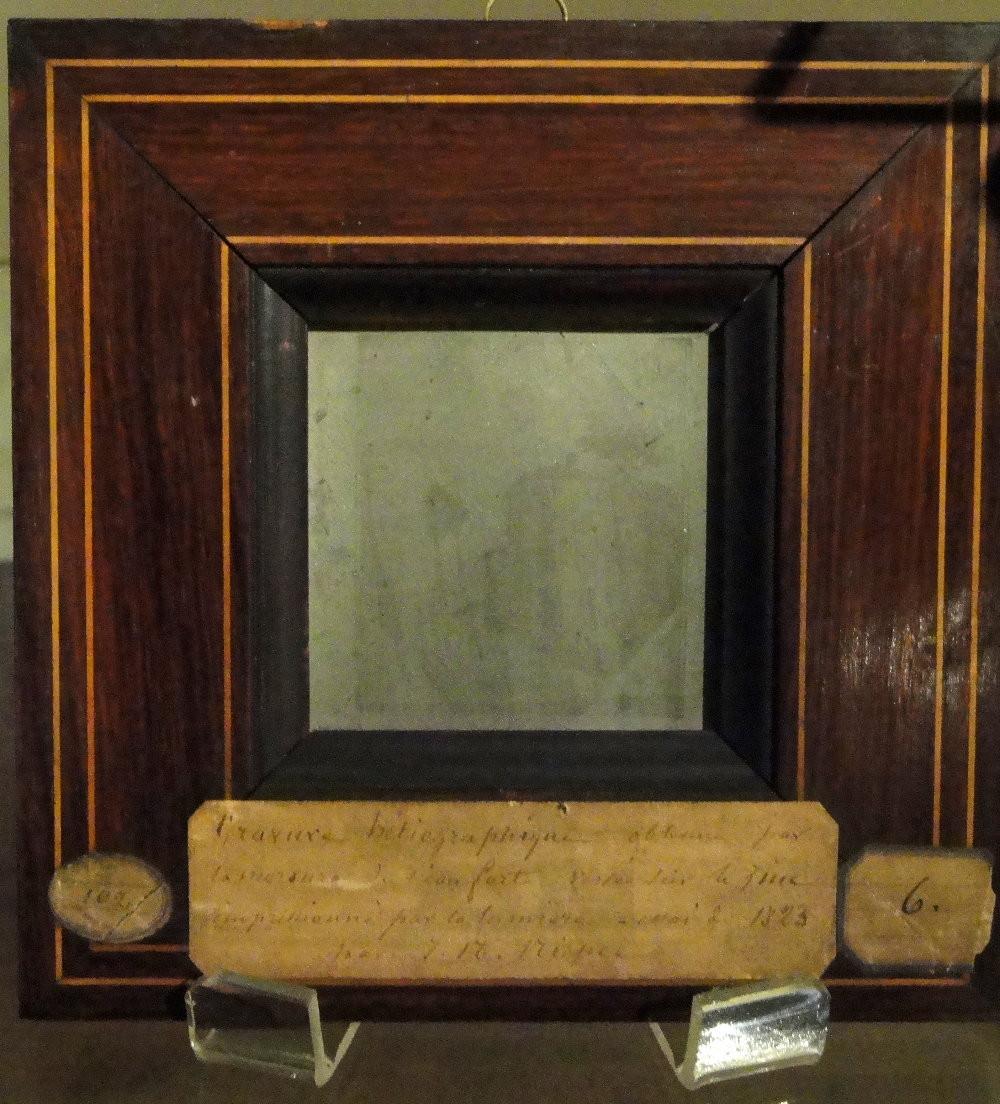 "Paysage" - Heliograph on zinc, 1823, by Nicéphore Niépce. Exhibit in the Musée Nicéphore Niépce, 28 Quai Messageries, Saône-et-Loire, France. There were no restrictions on photography in the museum.